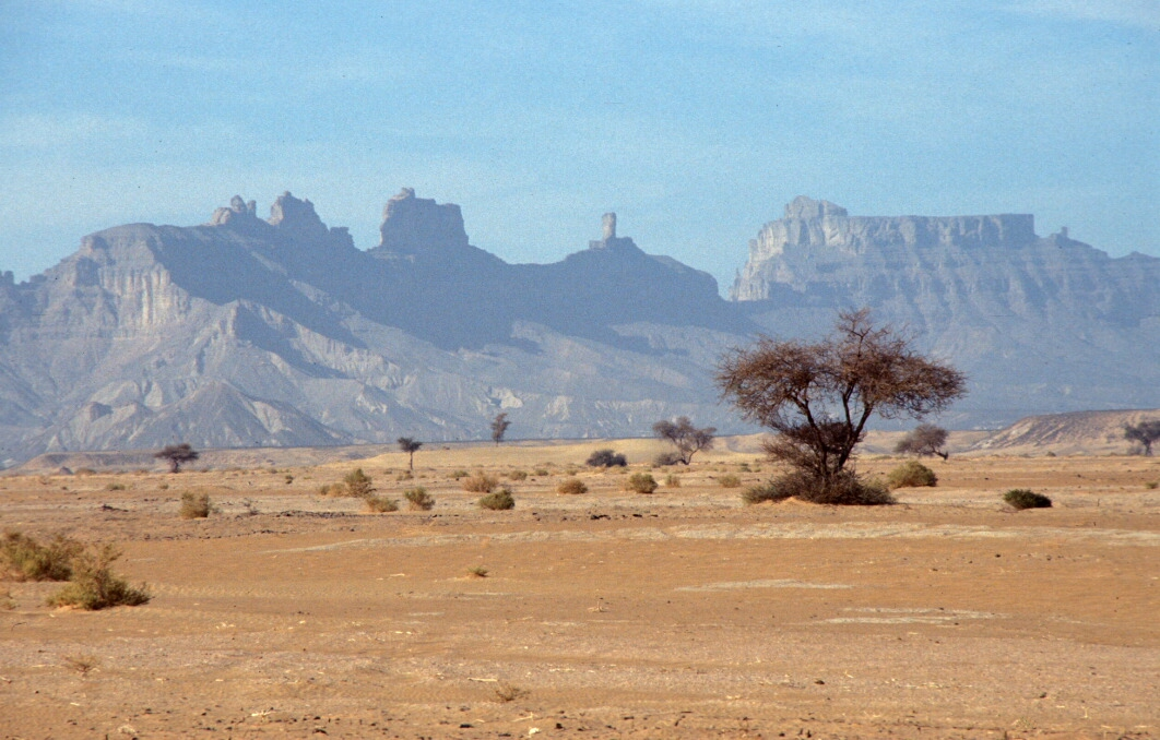 Idinen mountain range in soutwestern Libya